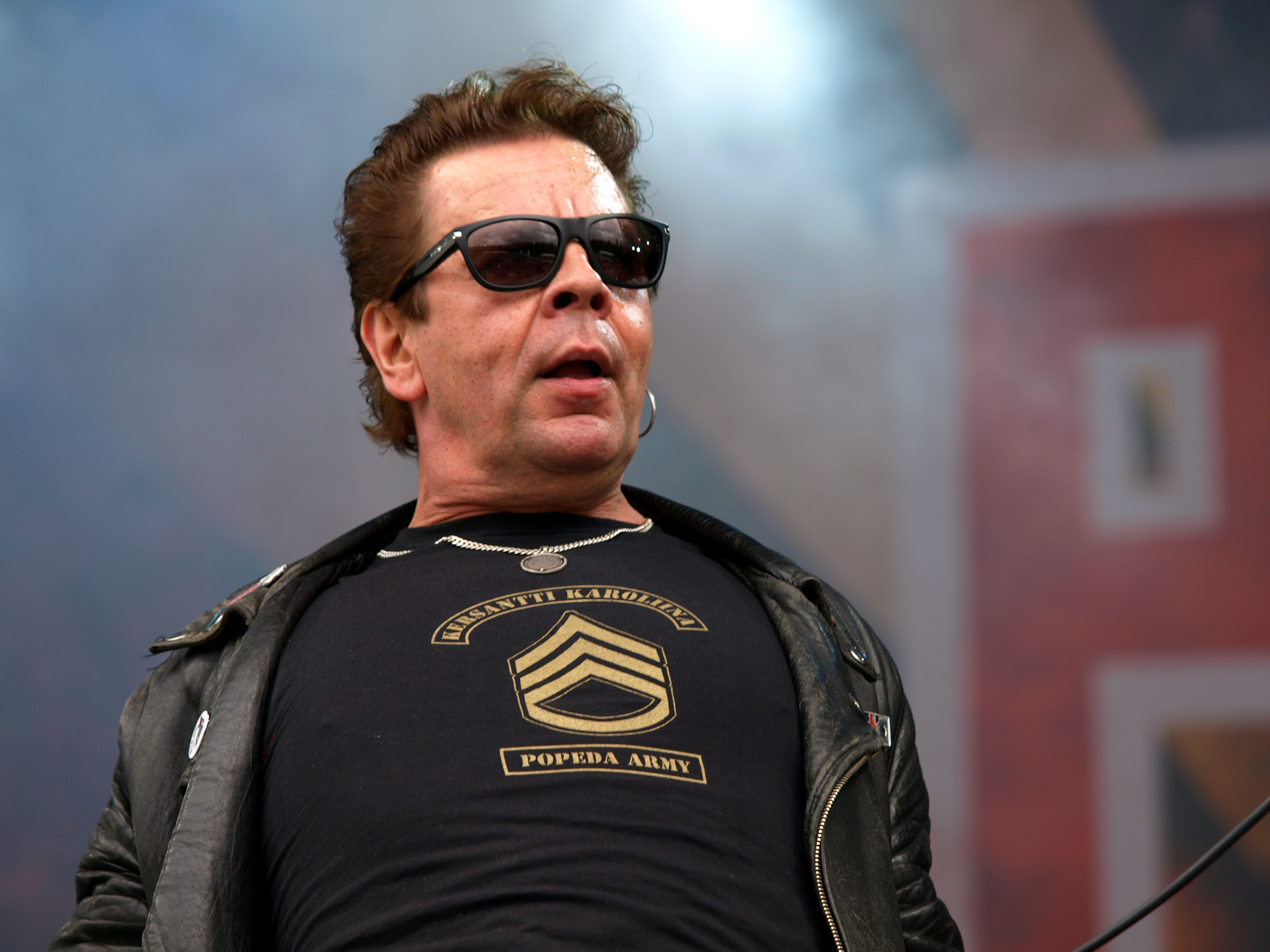 Finnish band Popeda at Provinssirock 2013